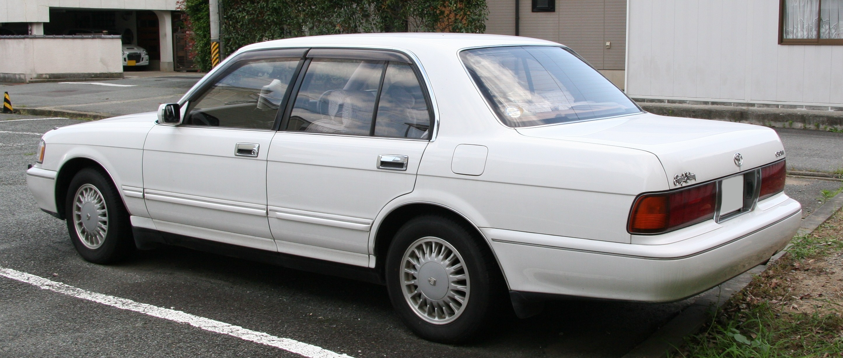 Toyota Crown